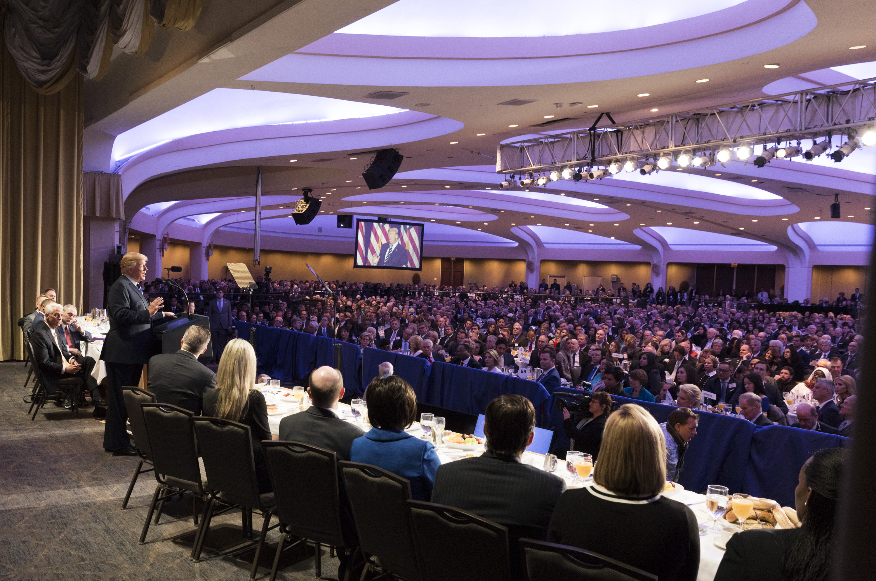 President Donald J. Trump delivers remarks at the National Prayer Breakfast | February 8, 2018 (Official White House Photo by Joyce N. Boghosian)